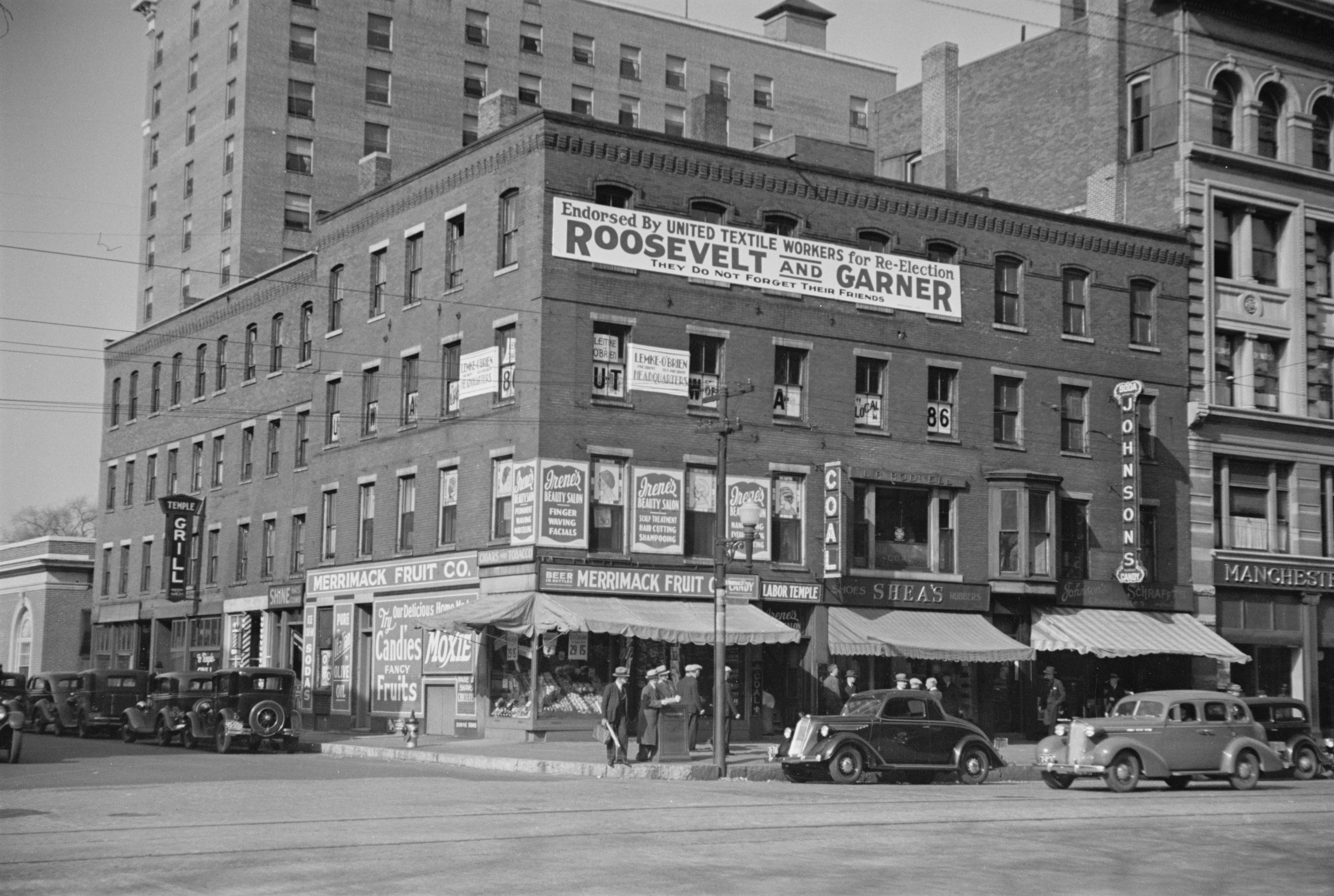 Elm Street in Manchester, NH Google Street View